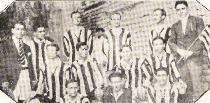 The first Gimnasia y Esgrima de Mendoza team ever. Pictured are: Vicente Elorza, R. Cass, D. G. Woods; Emilio Bastos, Pedro Elorza, Máximo Sartori, D. E. Martínez, Félix Elicegui, Roberto Levalle, Luciano Chabrié, Reinaldo Young.